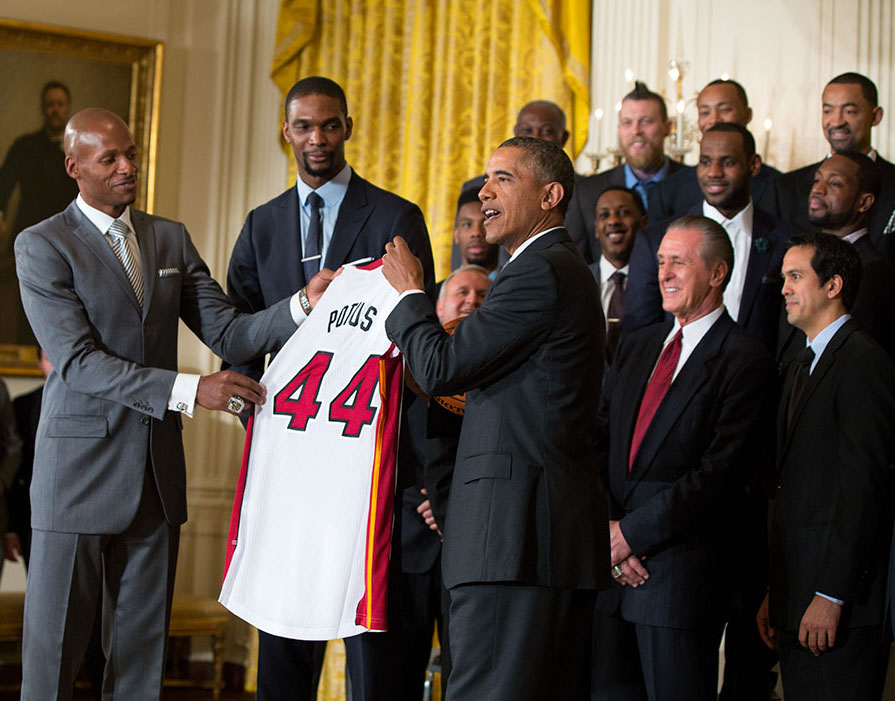 LeBron James, Chris Bosh and Dwyane Wade present President Barack Obama with a basketball and a jersey during an event to honor the 2013 NBA Champion Miami Heat, Miami Heat President Pat Riley, and Coach Erik Spoelstra on winning their second-straight Championship title, in the East Room of the White House, Jan. 14, 2014.